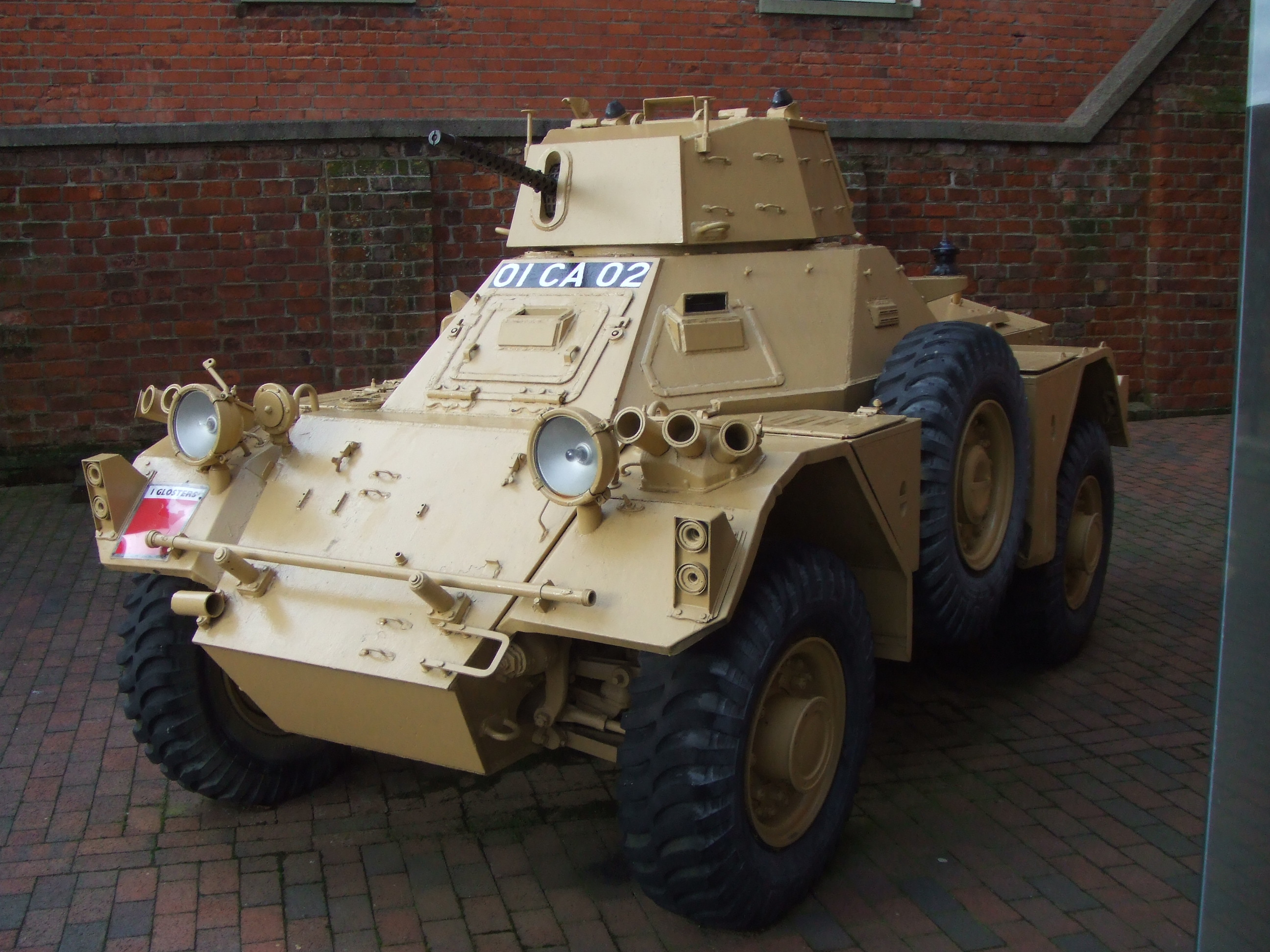 Daimler Ferret Armoured Car at the Gloucestershire Regiment Museum, 02/07.